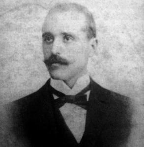 Luigi Fabbri (1877–1935) - Italian anarchist, writer, agitator and propagandist